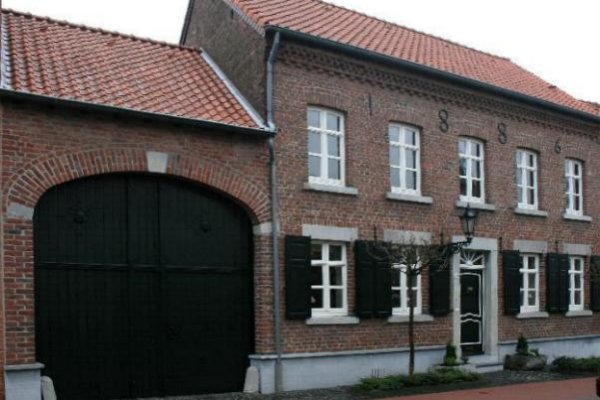 Cultural heritage monument No. 45 in Selfkant